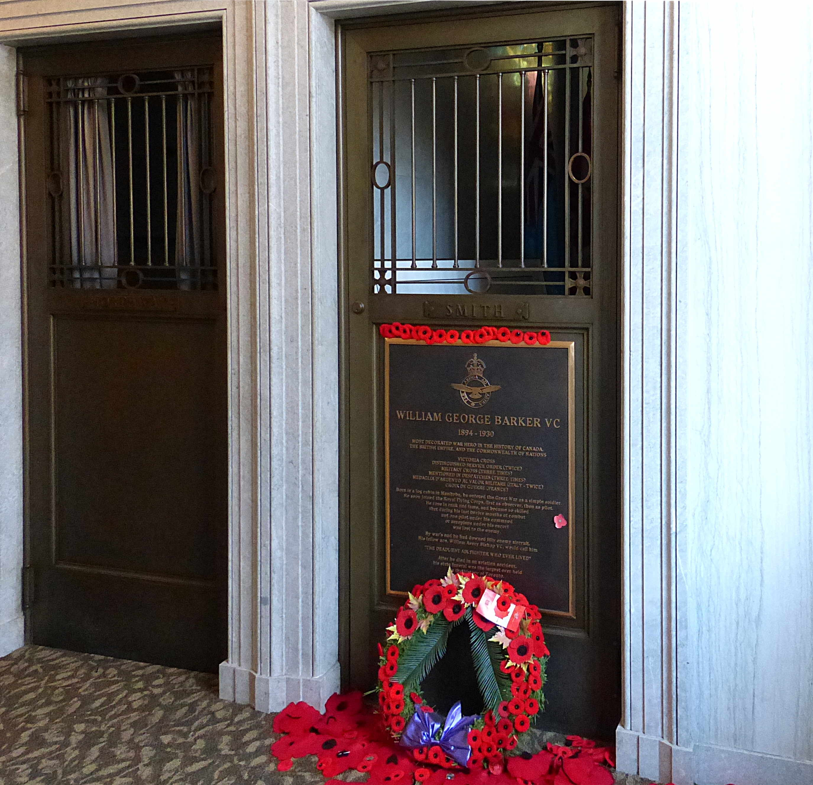 The tomb of RFC pilot William George Barker, V.C., in the Mausoleum at Mount Pleasant Cemetery in Toronto, Ontario, Canada. The plaque reads "William George Barker V.C. 1894-1930 Most Decorated Hero In The History Of Canada, The British Empire And The Commonwealth of Nations Victoria Cross Distinguished Service Order (Twice) Military Cross (Three Times) Mentioned In Despatches (Three Times) Medaglia D'Argento Al Valor Militaire (Italy - Twice) Croix De Guerre (France) and so on.